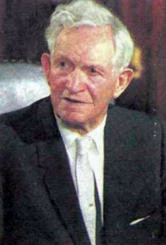 David Oman McKay, the ninth president of The Church of Jesus Christ of Latter-day Saints (LDS Church).